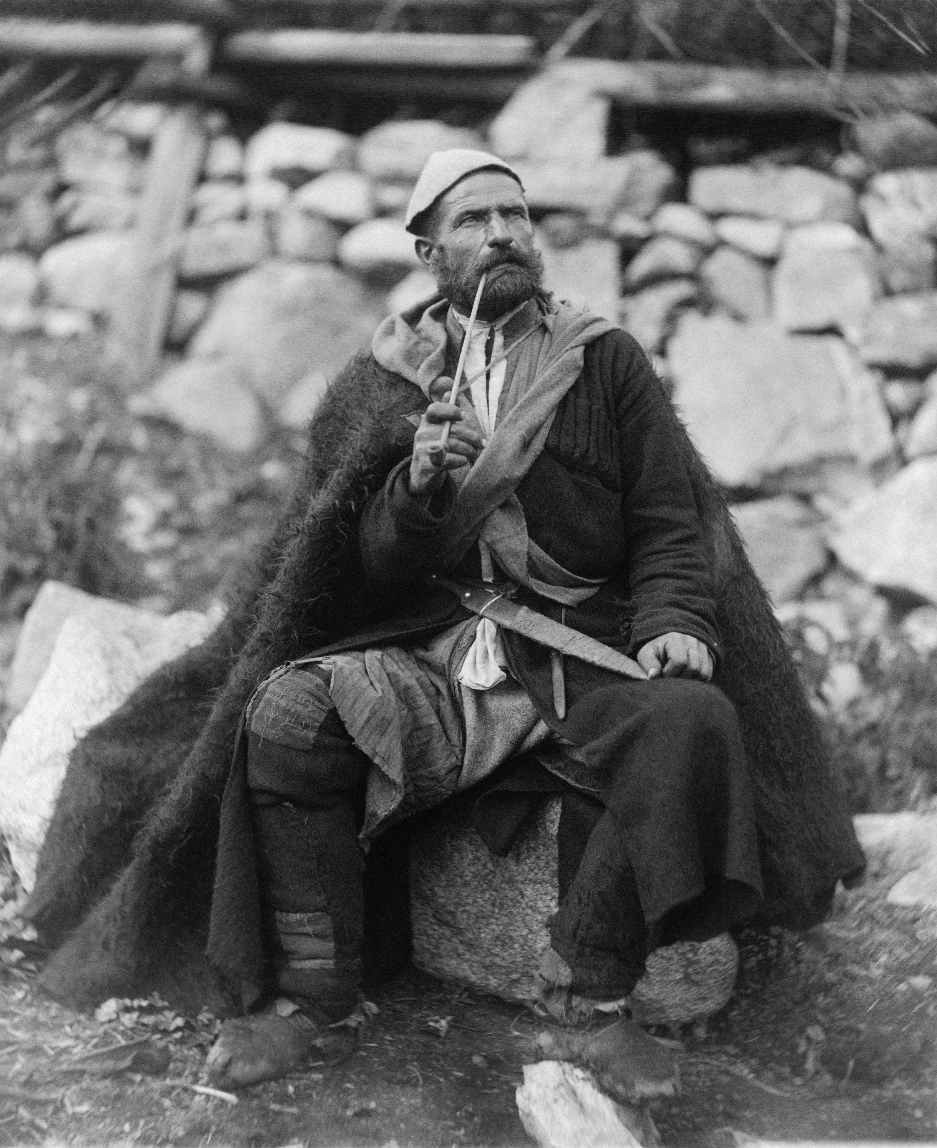 Old peasant with dagger and long smoking pipe, Mestia, Svanetia, Georgia (Republic)